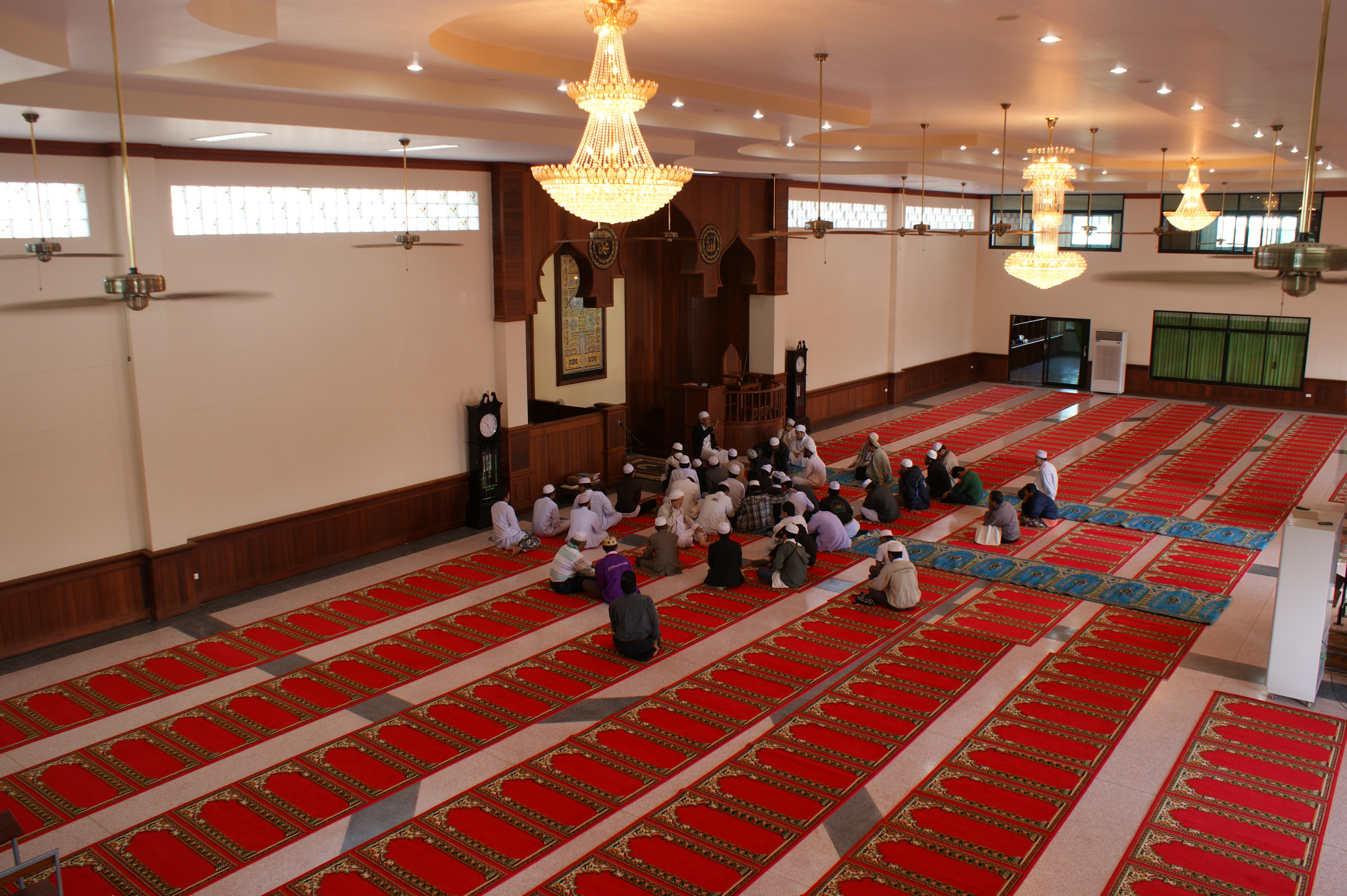 Ban Hoe Mosque located in Chiang Rai, is the biggest mosques in the province.